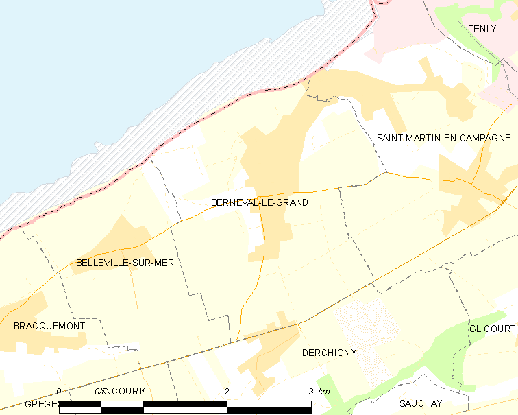 Map of French municipality Berneval-le-Grand